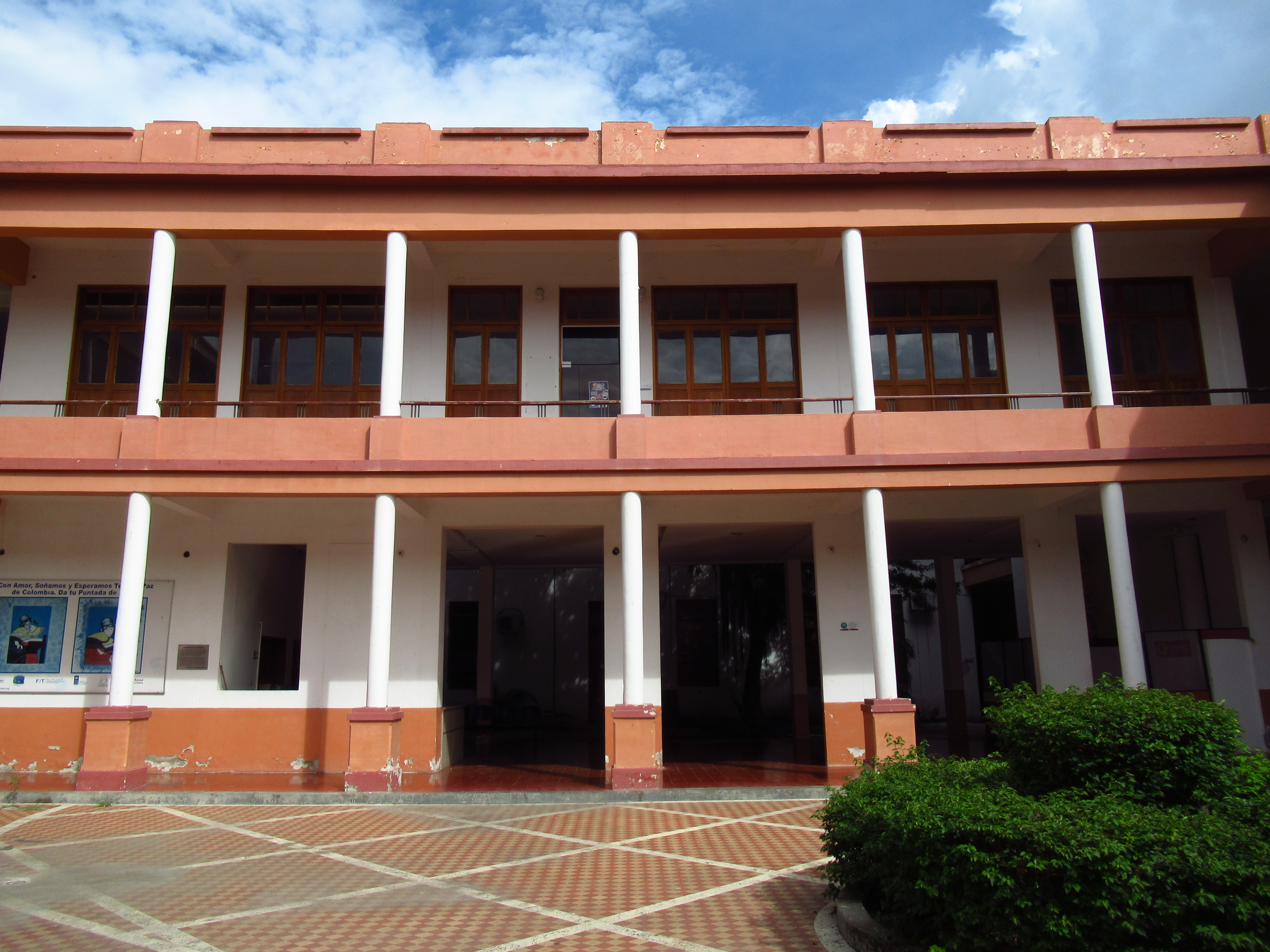 Santa Marta